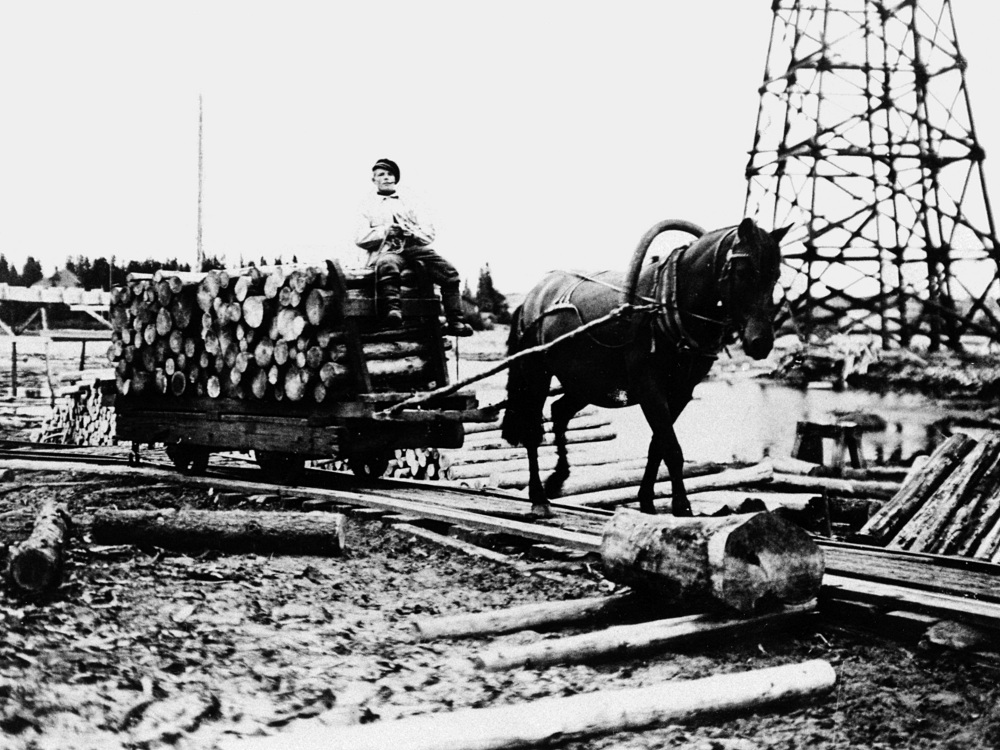 Juha Sipola ajaa puuta Martinniemen sahalla 1929.